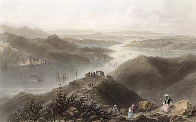 The Bosphorus, Opposite the Genoese Castle, Turkey. Original steel engraving. 1838. Good condition. Hand-coloured. 18x11,5cm